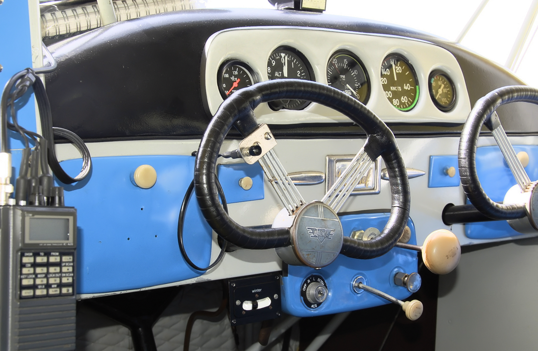 Aeronca 11AC Chief (G-IVOR), built in 1940, at the Great Vintage Flying Weekend (a gathering of vintage light aircraft) at Kemble Airport, Gloucestershire, England. Photographed by Adrian Pingstone in May 2009 and released to the public domain.